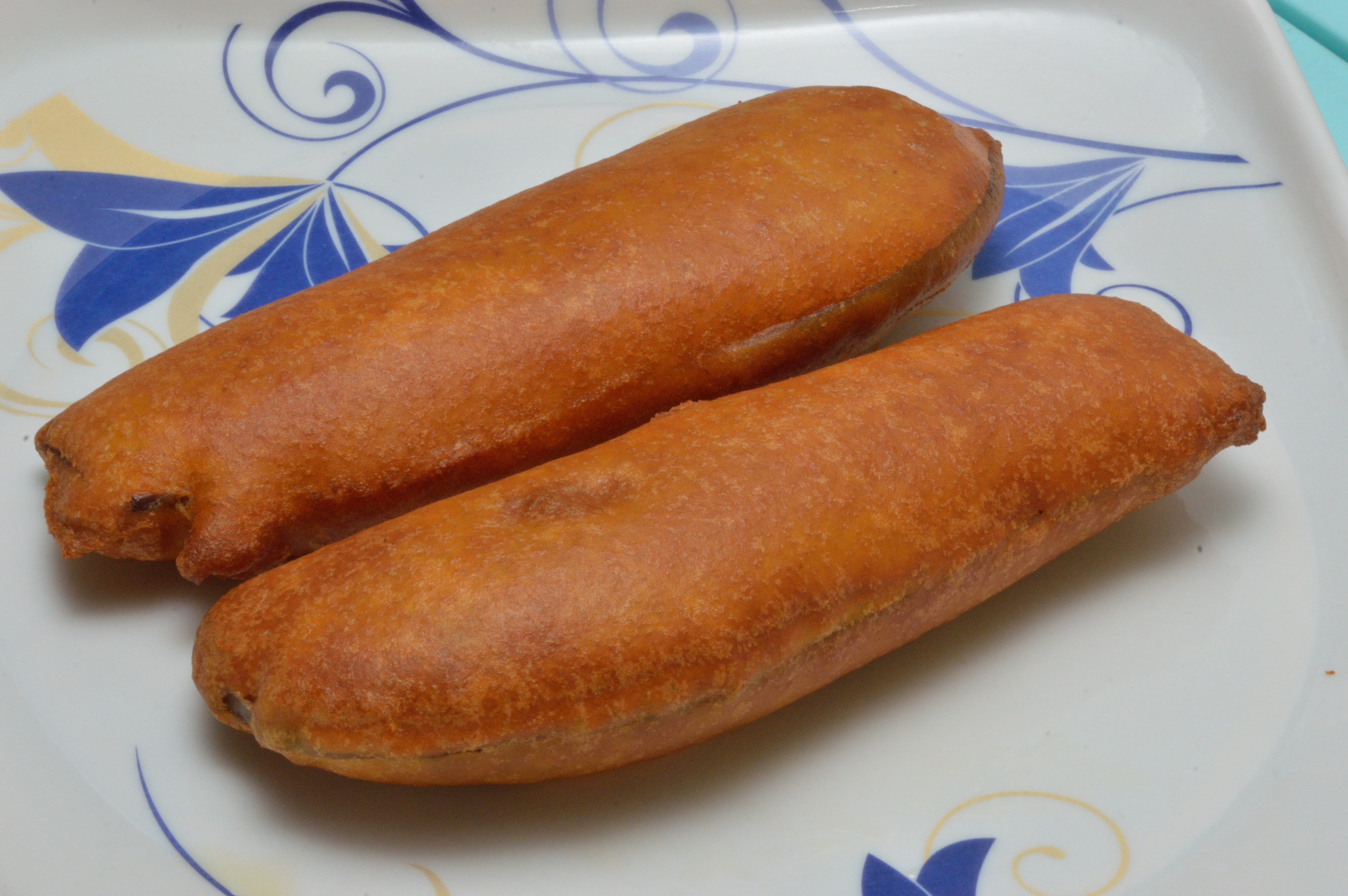 Brinjal fritters (bn: Beguni) is made at local fry stall. Photographed in Howrah, West Bengal.